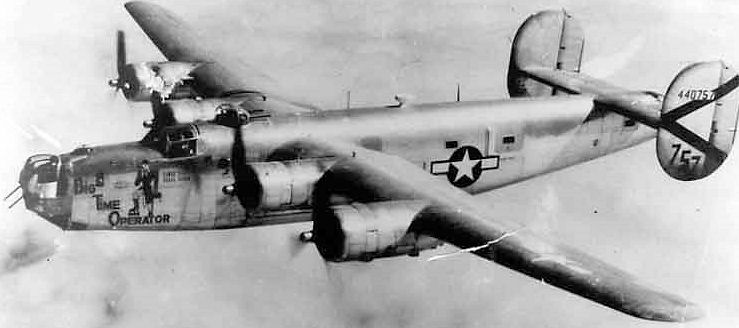 Consolidated B-24J-180-CO Liberator 44-40757 494th Bombardment Group, 864th Bombardment Squadron with "Big Time Operator" nose art